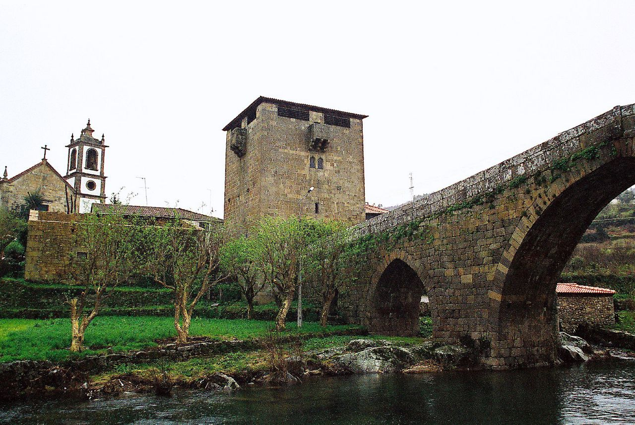 Ucanha tower and bridge, Tarouca, Portugal